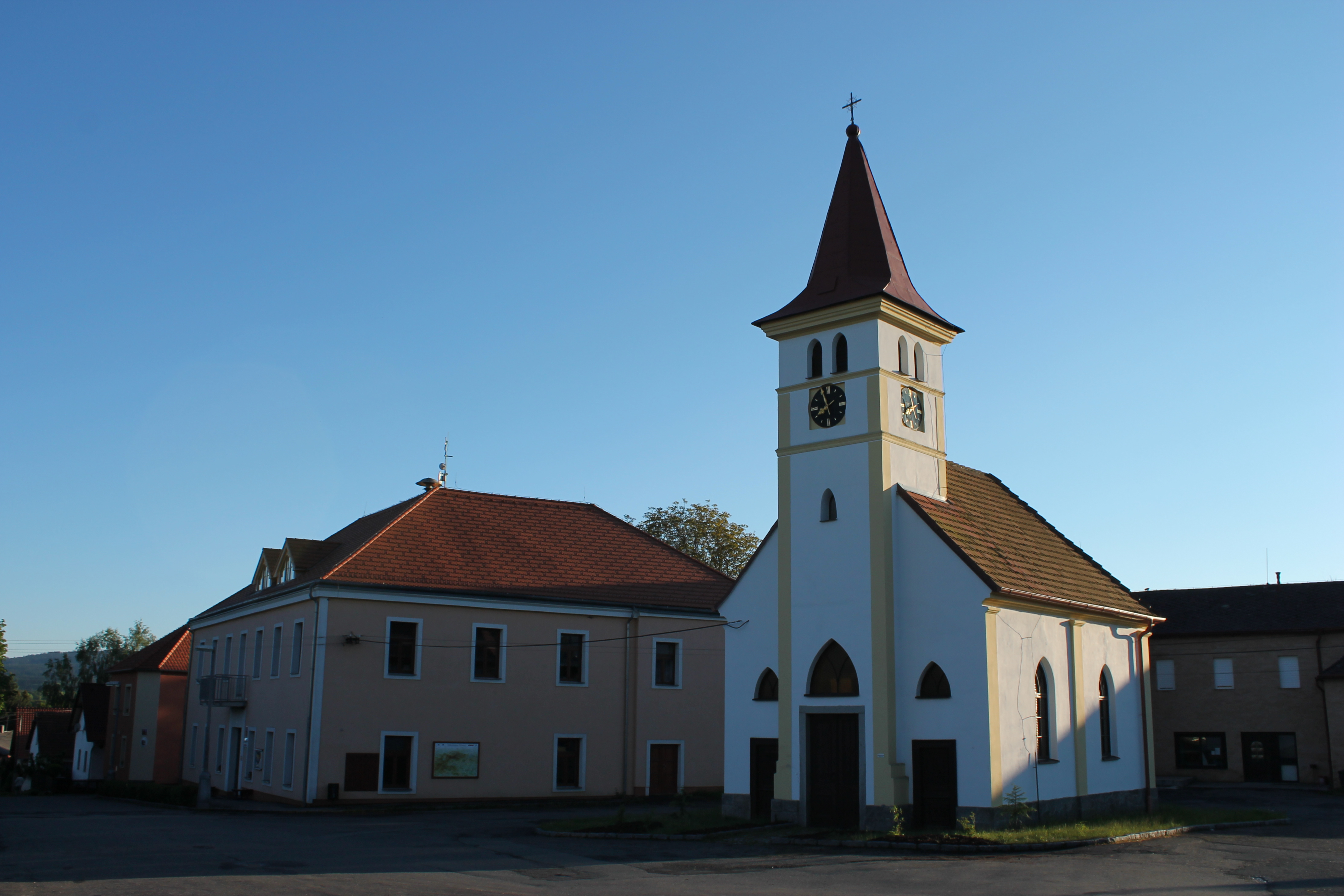 Chapel in Věšín